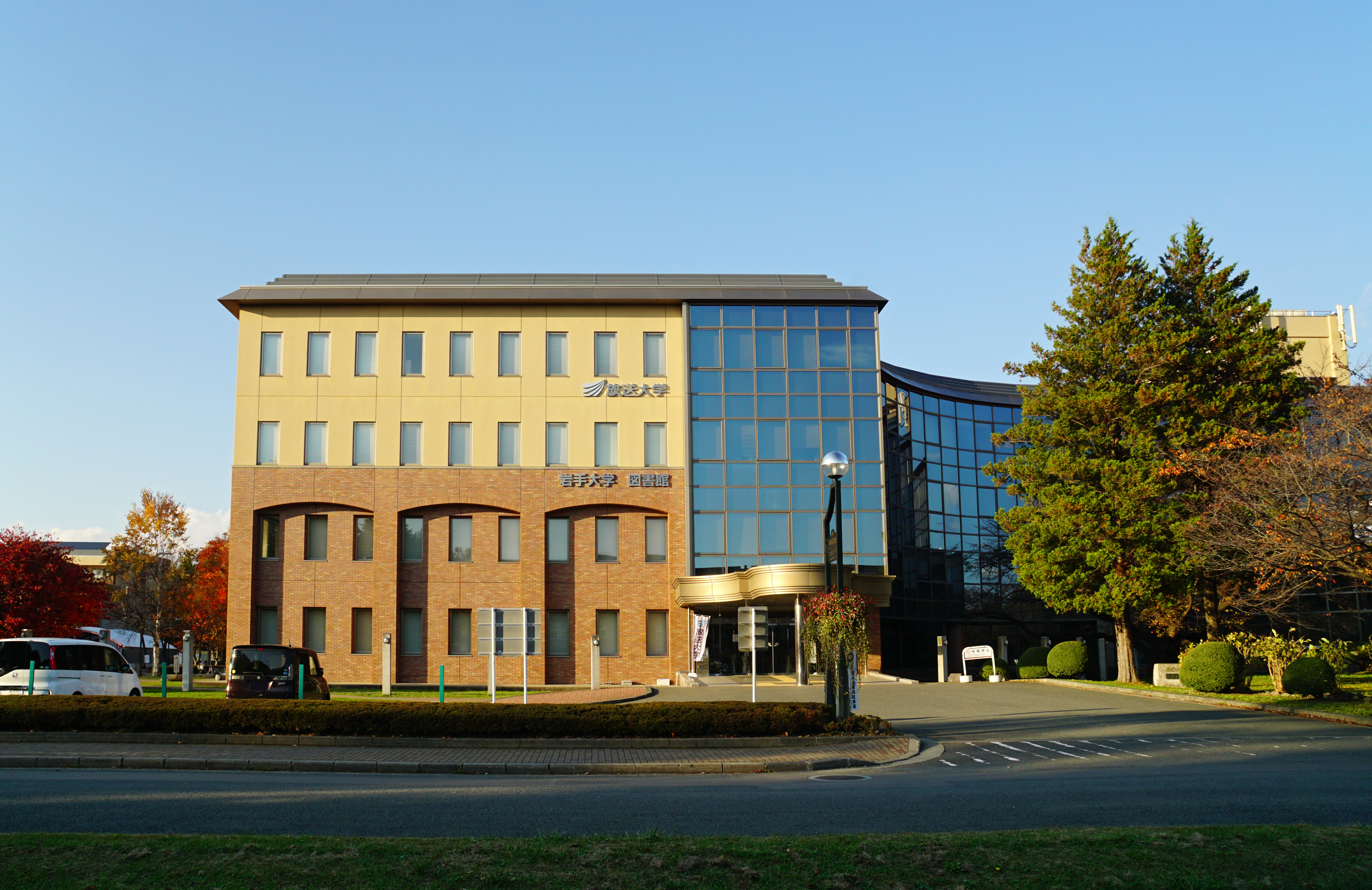 Iwate_University in Morioka, Iwate prefecture, Japan